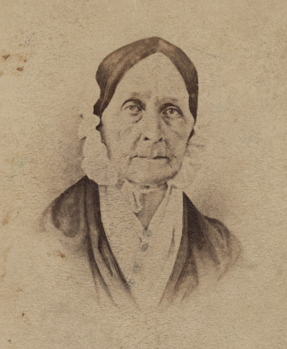 Title: Barbara Frietchie "'Strike if you will, this old gray head. But spare your Country's Flag,' she said" / / M.B. Brady & Co., National Photographic Portrait Galleries, No. 352 Pennsylvania Av., Washington, D.C. & New York. Abstract/medium: 1 photograph : albumen print on card mount ; mount 10 x 6 cm (carte de visite format)